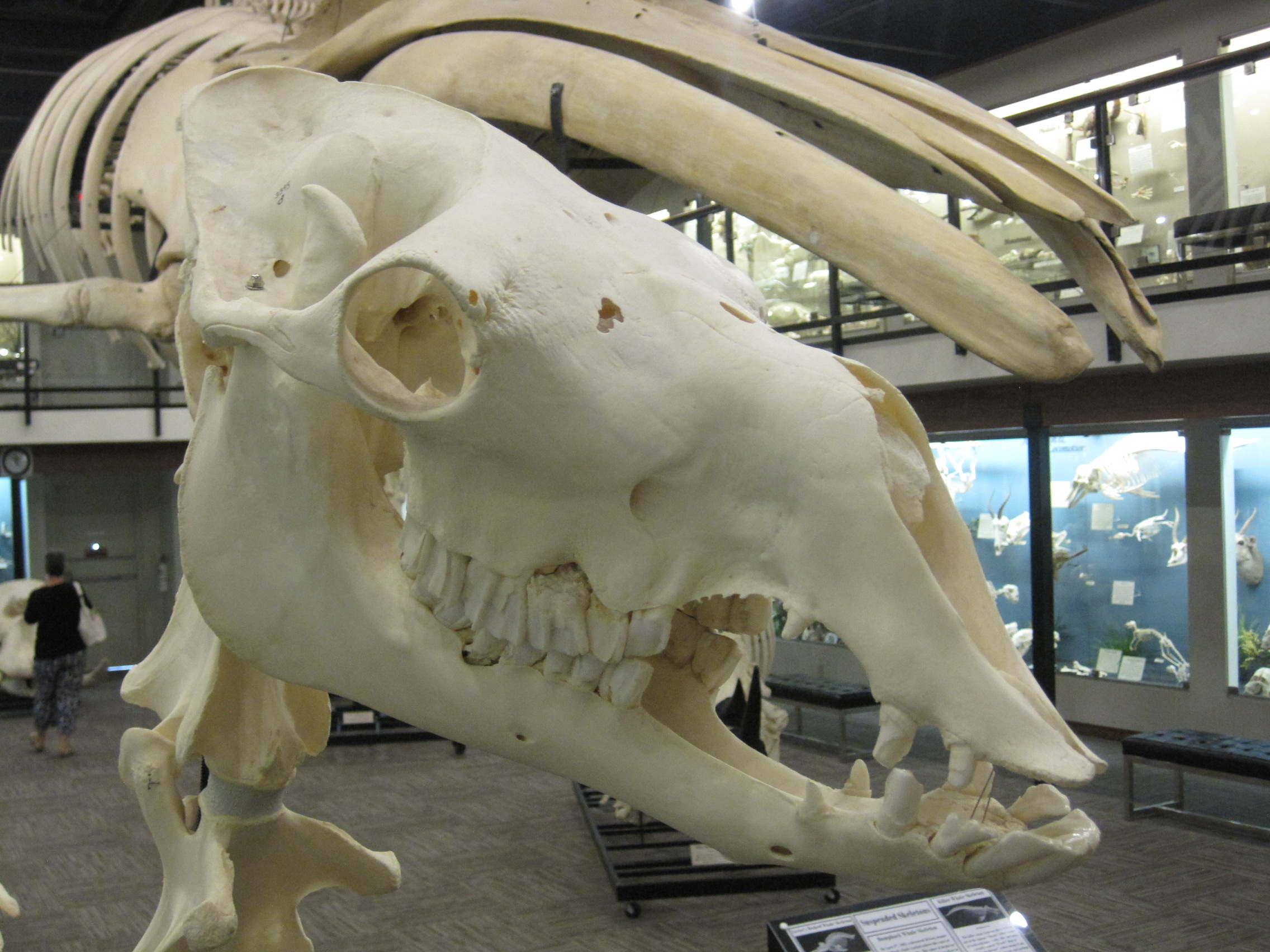 Camel skull on display at the Museum of Osteology, Oklahoma City, Oklahoma.